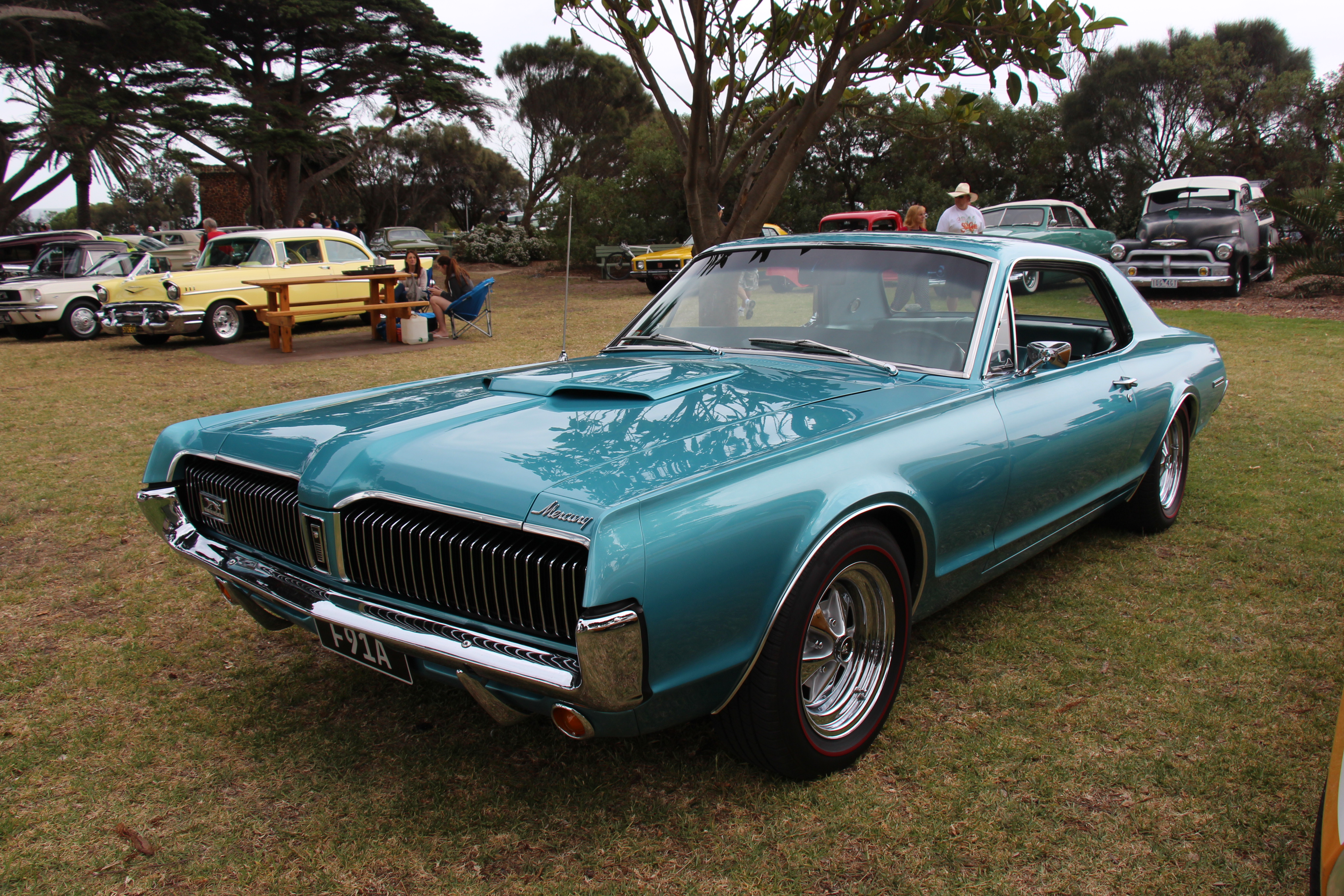 The first generation Cougar was built from 1967-70 and was built on the Mustang platform, (Later it was built on the Torino and Thunderbird platforms). but it was 3 inches longer than the Mustang and more luxurious. It got a full-width divided grille with hidden headlamps and vertical bars. Available only as a Coupe in 67-68. Base Cougar or XR7 (which got woodgrain dash and steering wheel). Engines; 289 or 390 in 1967 and 302 and 428 in 1968 (The GT came standard with the big block)